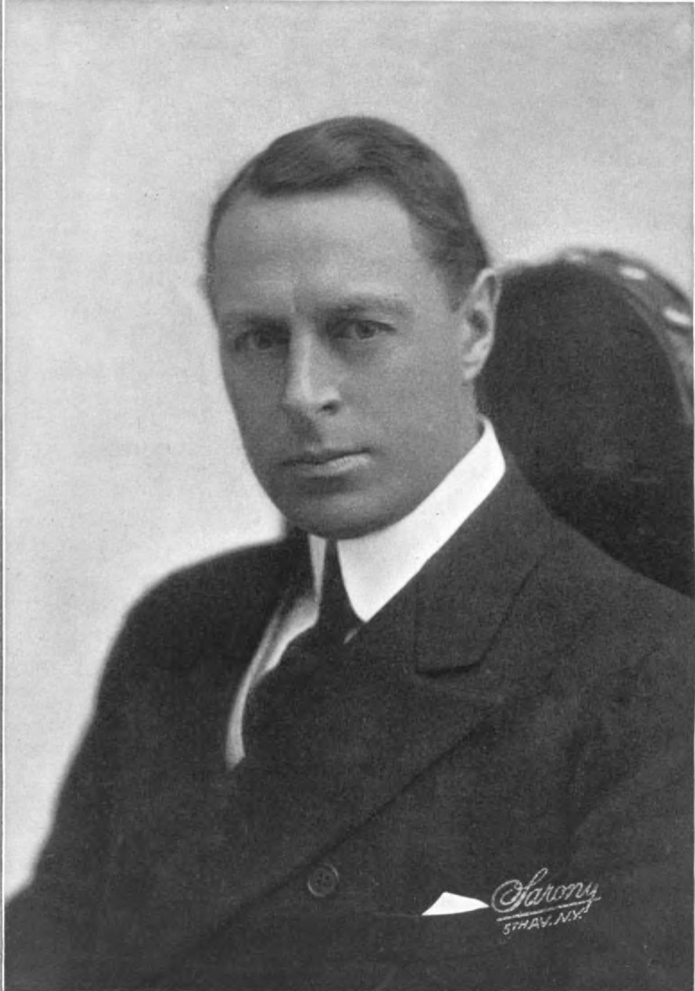 Bruce McRae in The Flag Lieutenant 1909